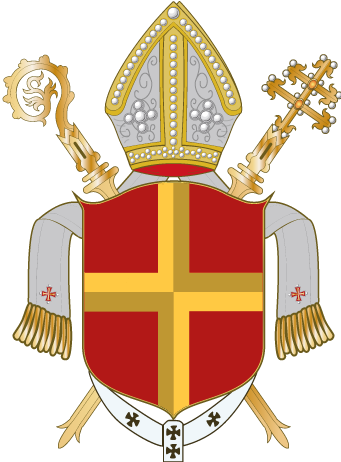 Coat of arms of Archdiocese of Paderborn. Elements by David Liuzzo